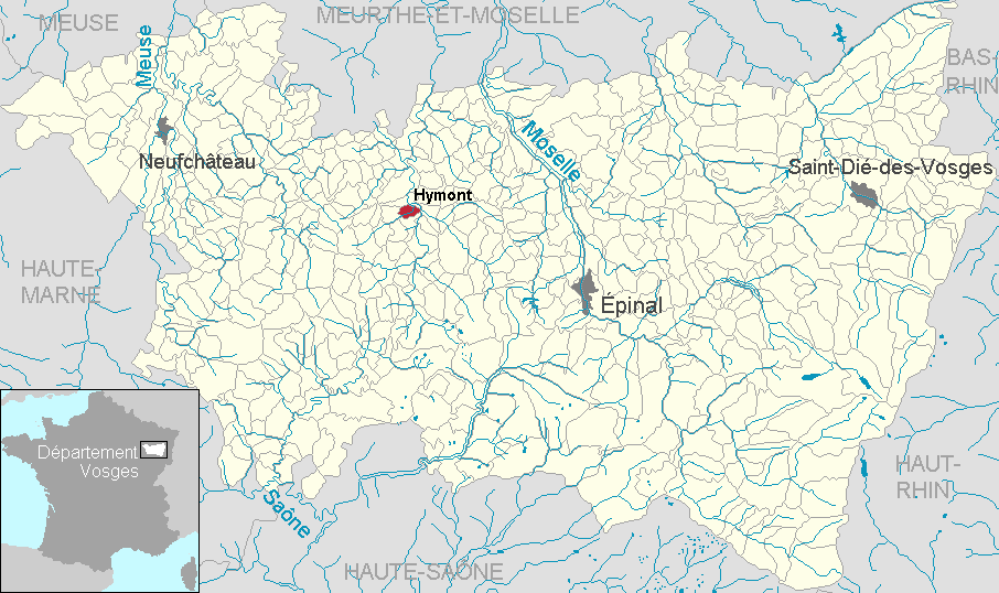 Hymont in the department of Vosges, Lorraine, France